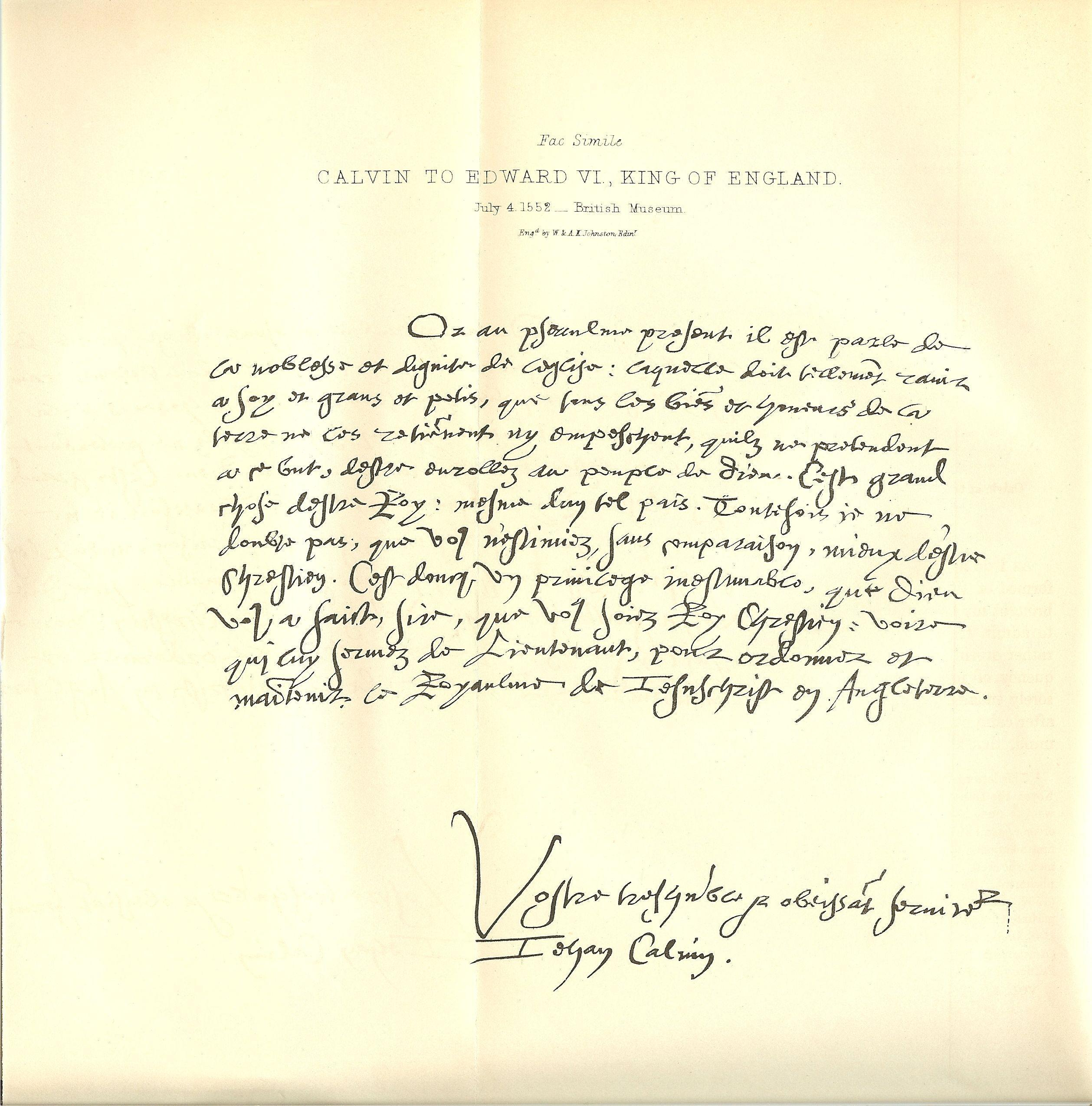 Facsimile of French manuscript letter written by John Calvin to king Edward VI of England, July 4, 1552. From the British Museum. Foldout is 8 3/4 x 8 7/8 in.